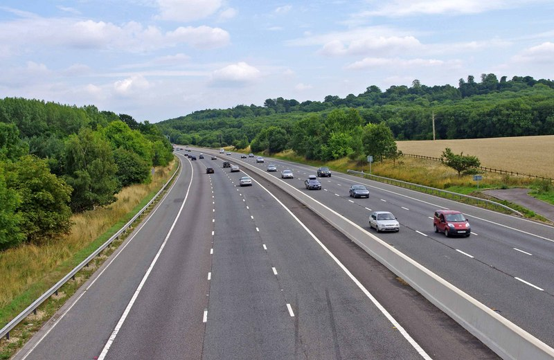 M4 motorway near Swindon, looking southeast